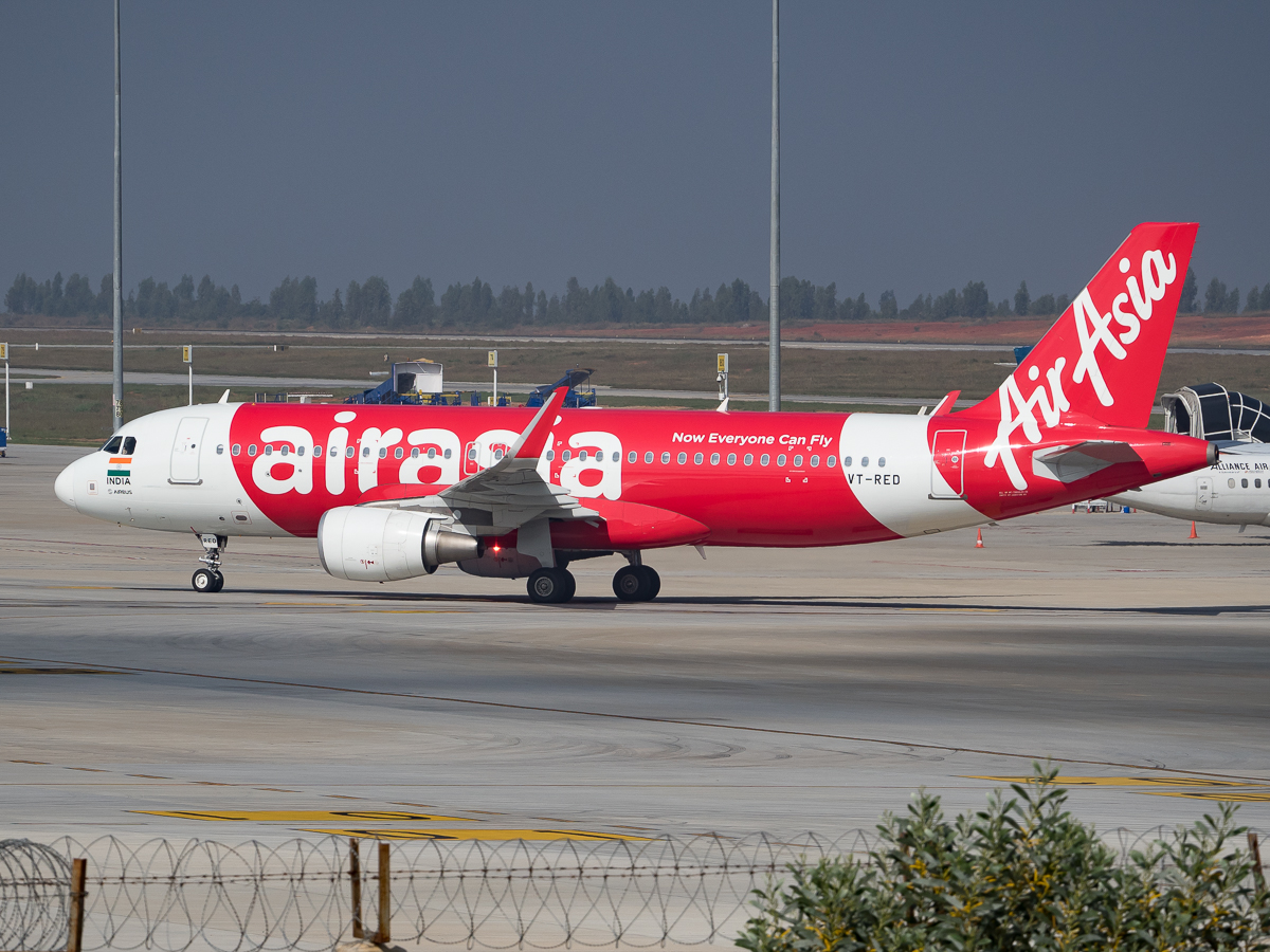 AirAsia India Airbus A320 registered VT-RED at Kempegowda Intl Airport Bangalore